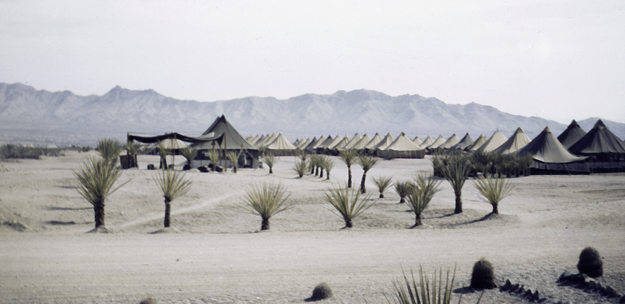 The World War II-era Camp Ibis in the Desert Training Center, now part of the Mojave Trails National Monument, east of Los Angeles in Southern California.